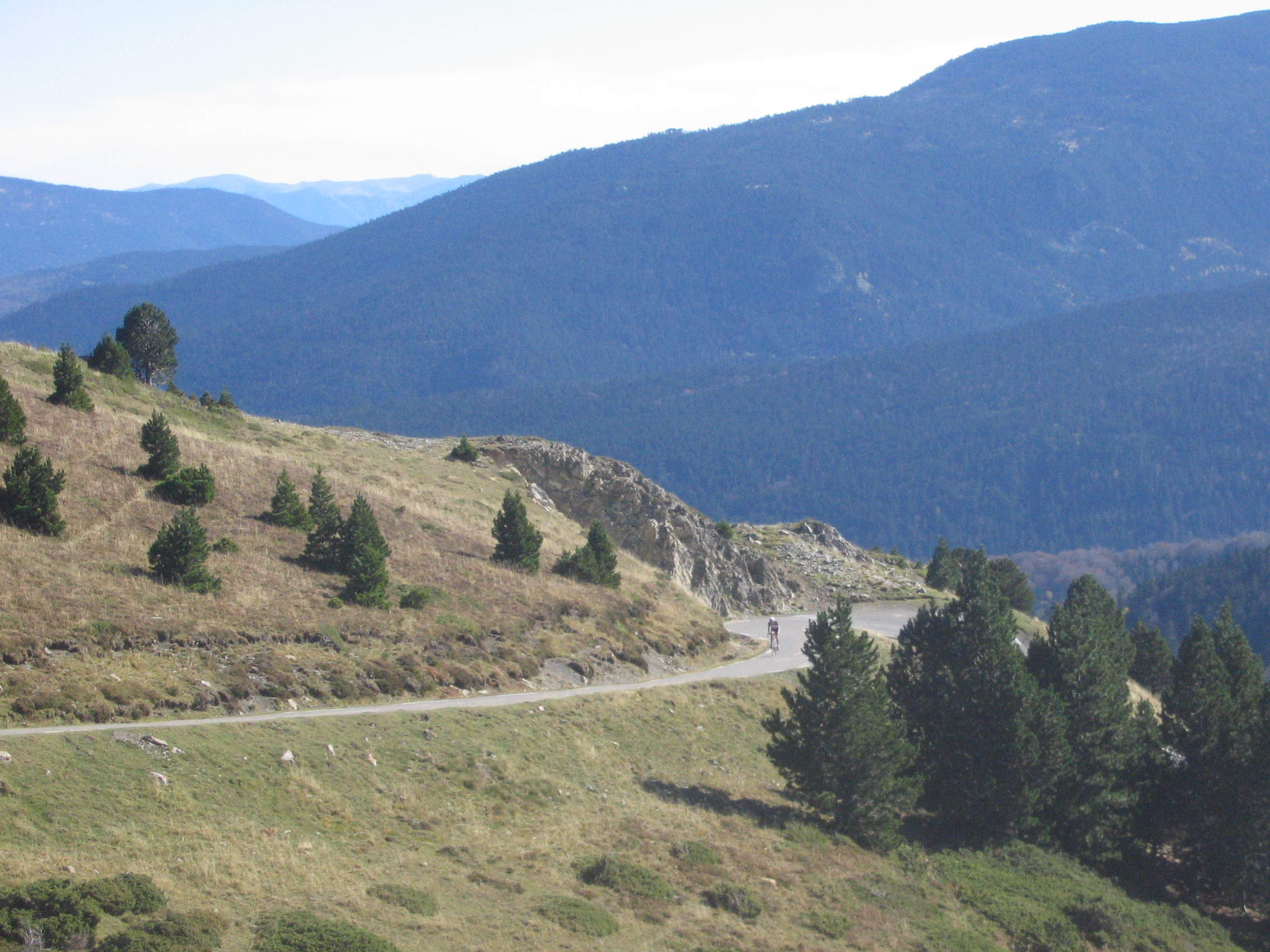 Port de Pailhères climb.